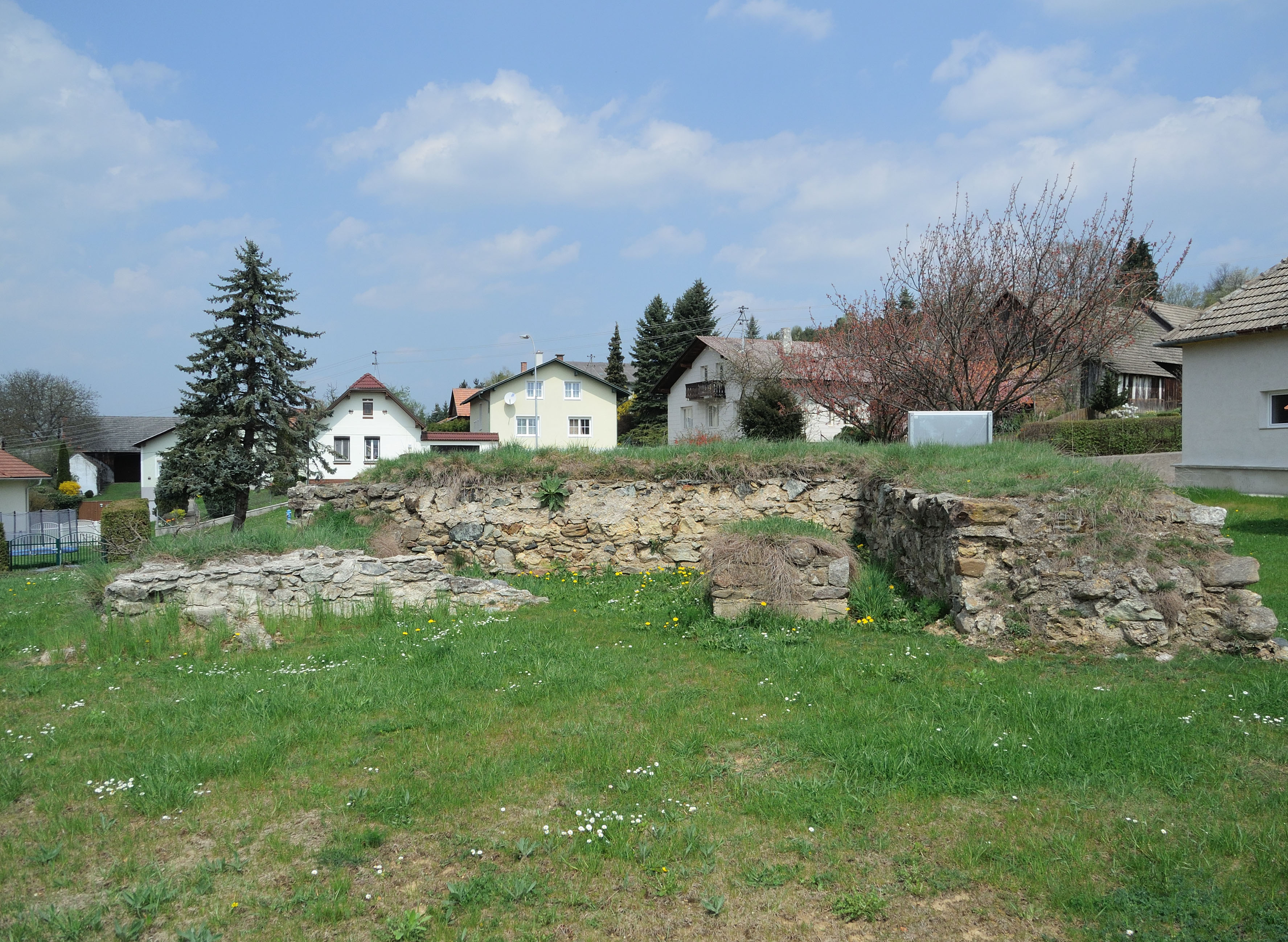 Ruin of a church in Pilgersdorf, Burgenland, Austria